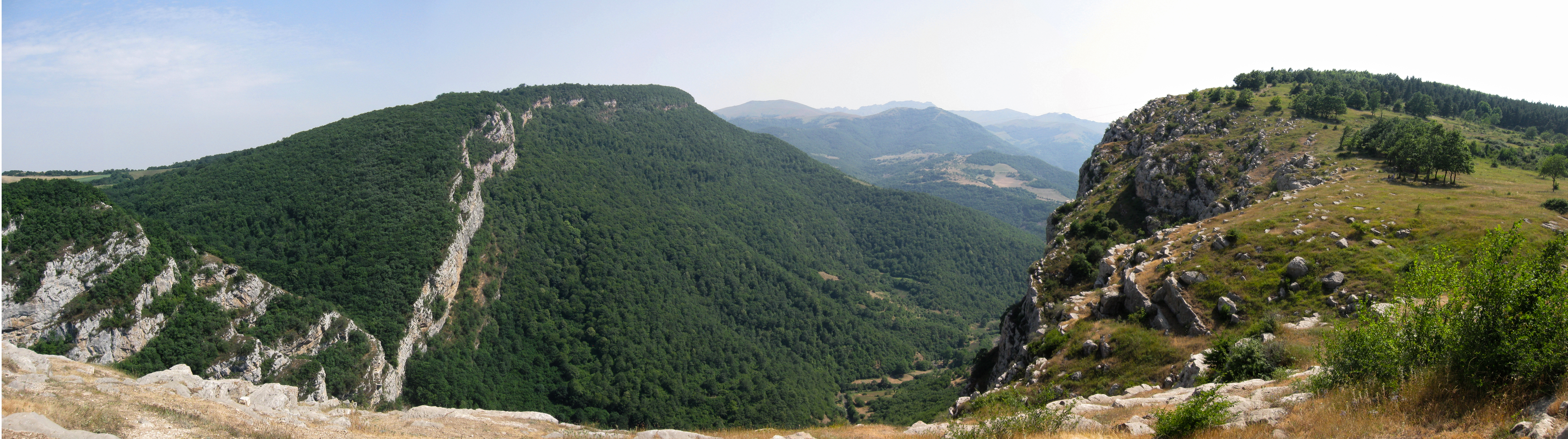 Hunot Canyon, Artsakh republic (Nagorno-Karabakh Republic)